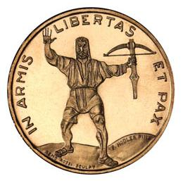 25 CHF coin 1955 obverse